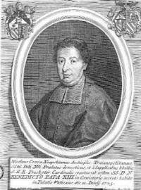 Cardinal Niccolo Coscia